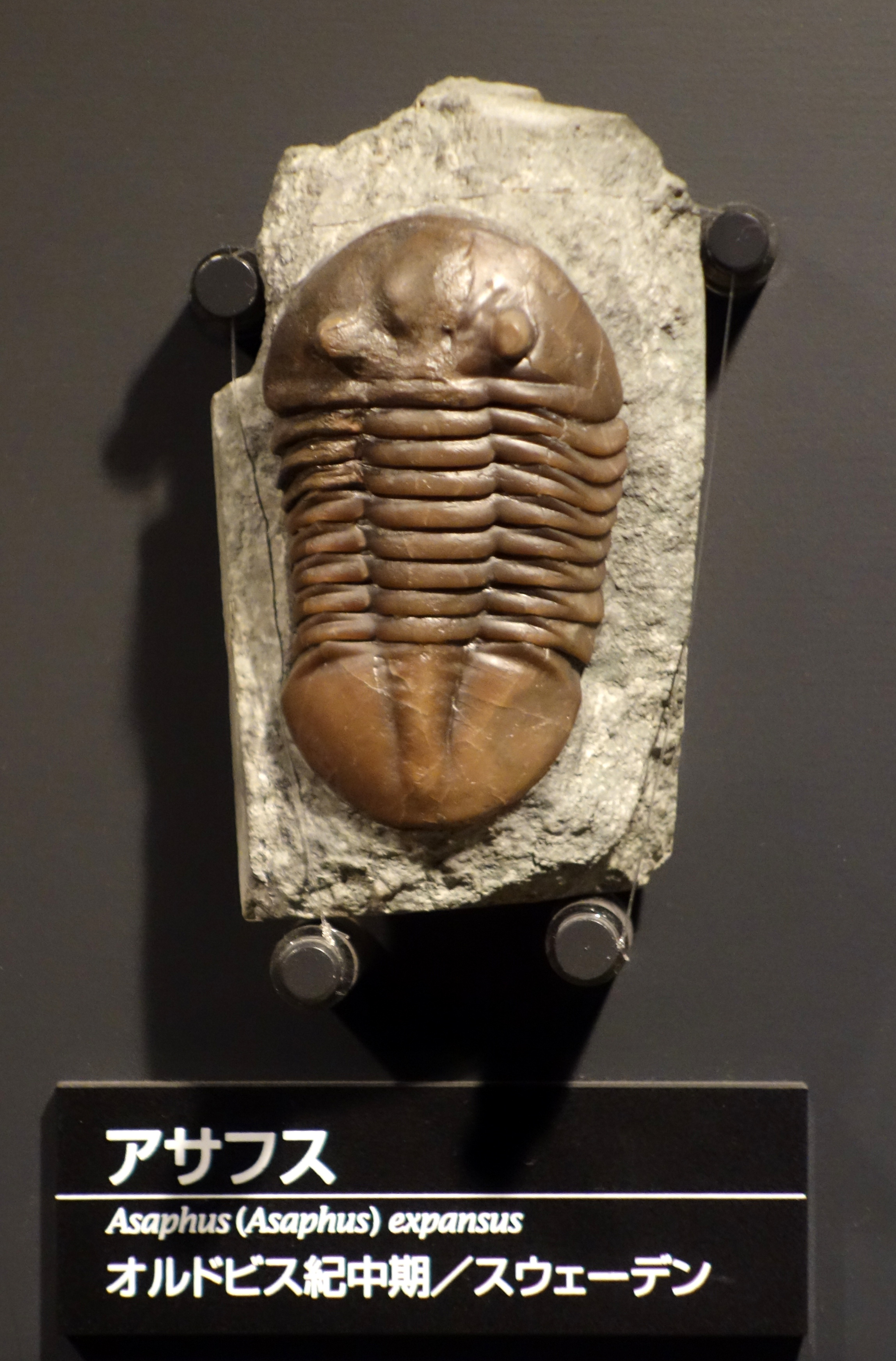 Exhibit in the National Museum of Nature and Science, Tokyo, Japan.